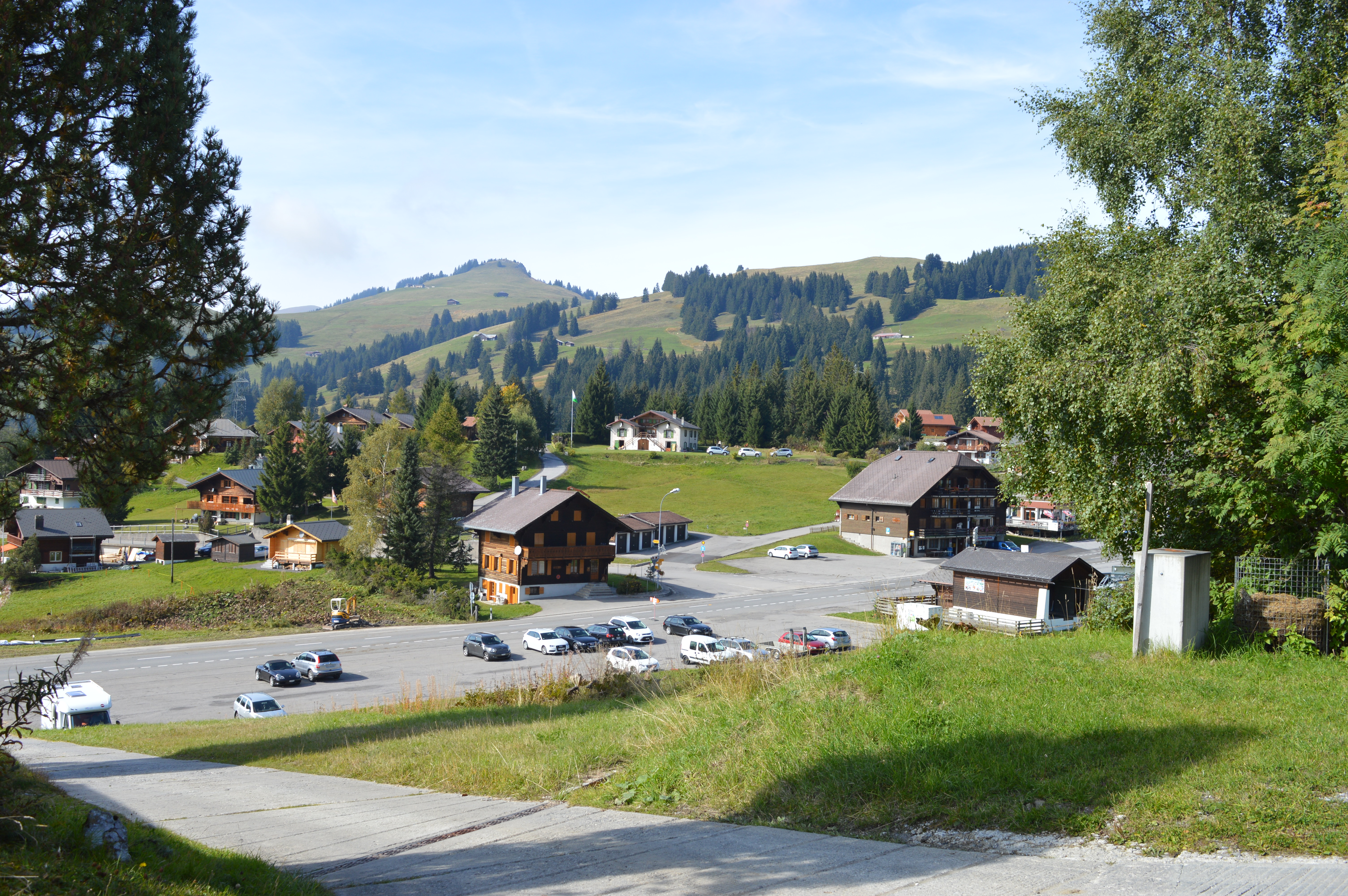 La Lècherette, canton of Vaud, Switzerland